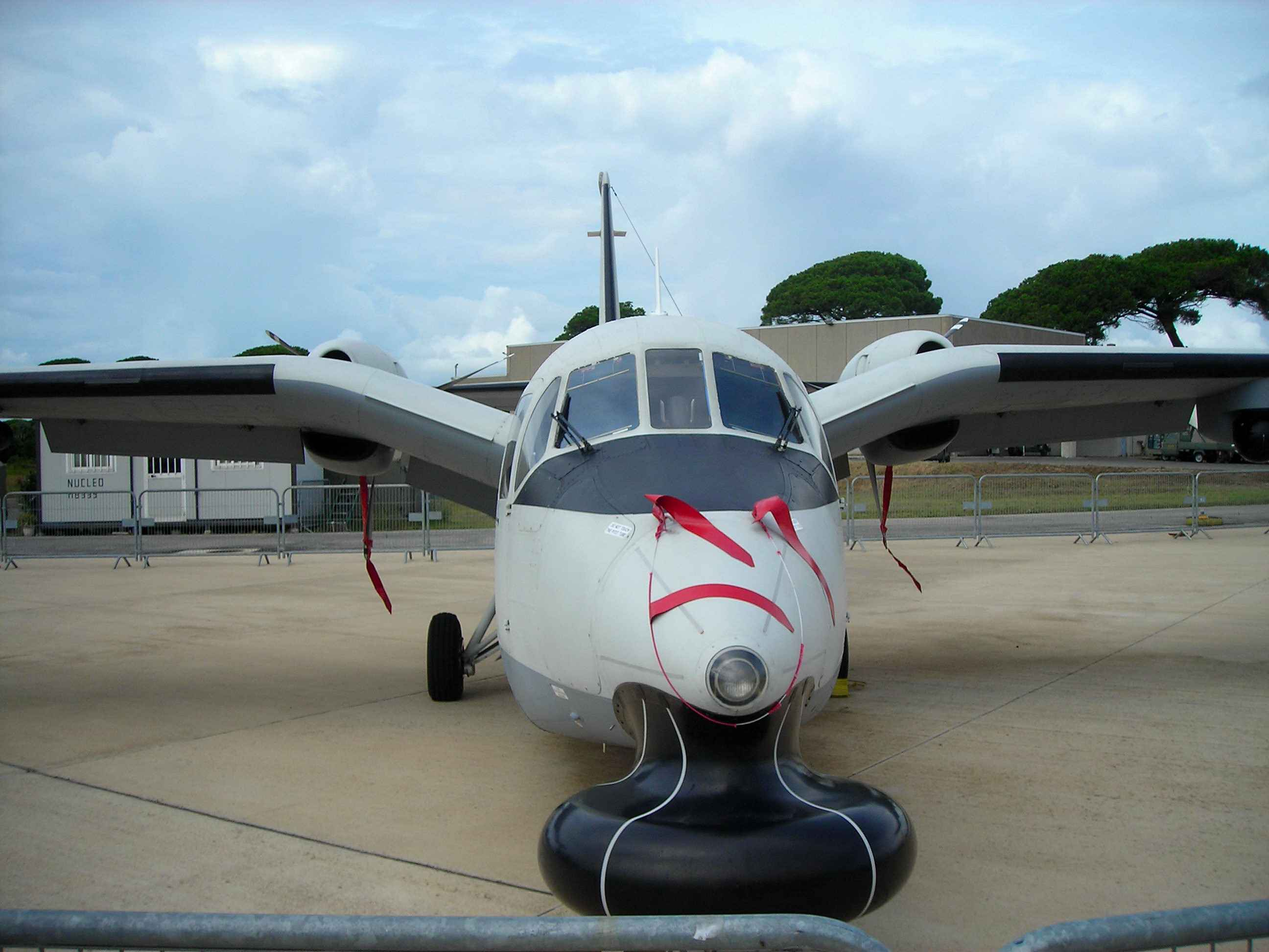 It is the nose of a Piaggio P.166 used by Guardia di Finanza. Picture taken during "Giornata Azzurra" 2006 (Italian Air Force airshow) at Pratica di Mare AFB, Italy.